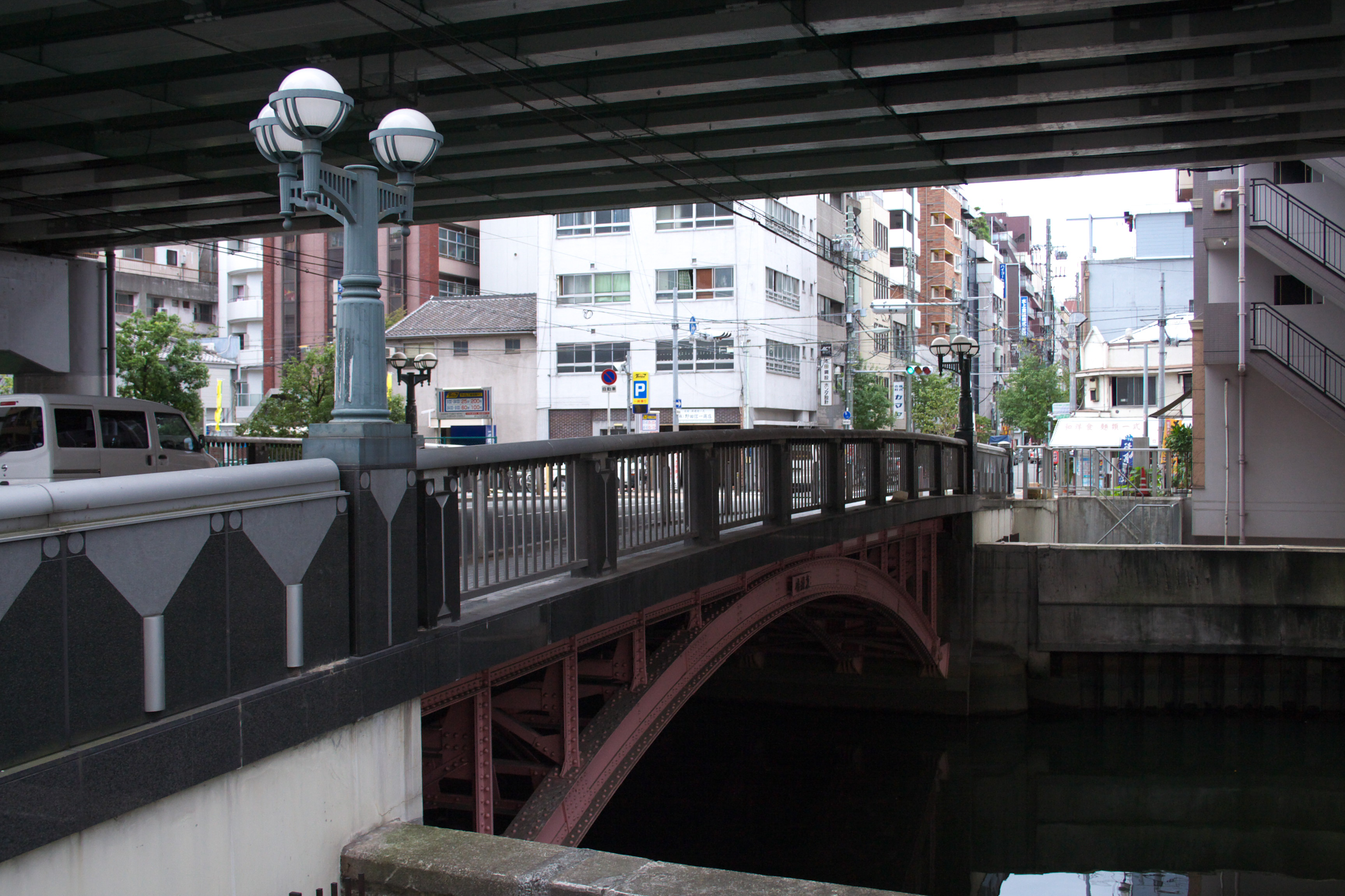 Higashihoribashi Bridge (Osaka City, JAPAN)